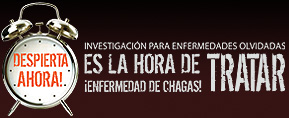 DNDi's campaign logo